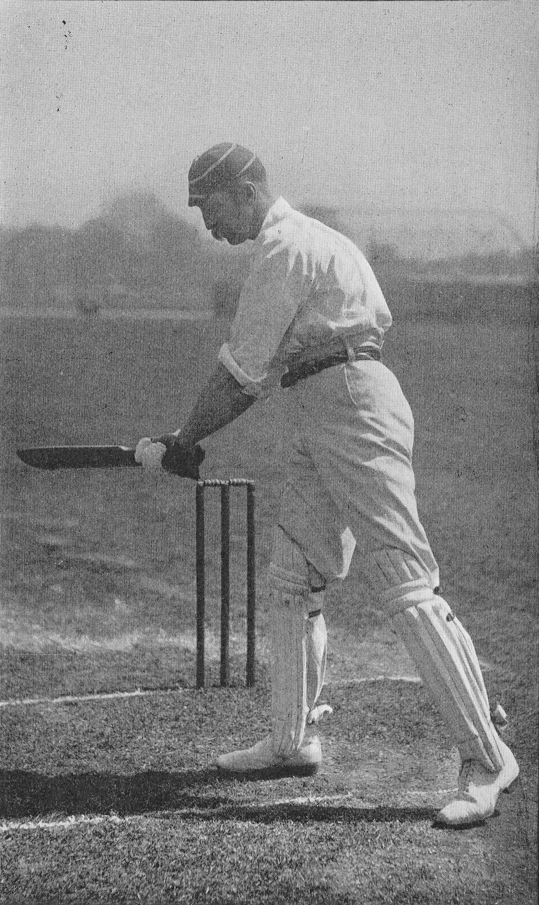 "A. Ward cutting."